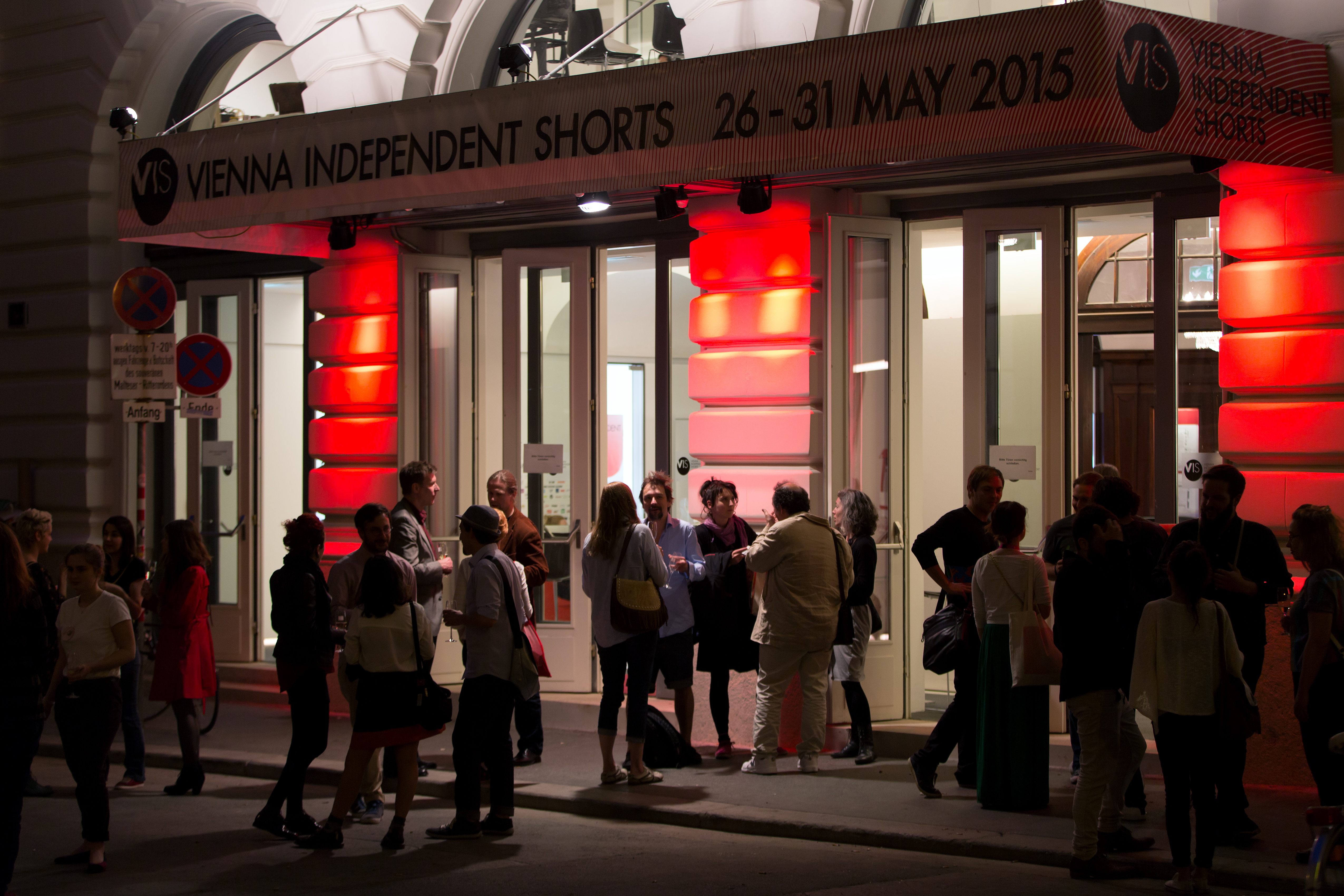 Evening of the award ceremony of the short film festival Vienna Independent Shorts 2015; Metro Kinokulturhaus in Vienna, Austria.